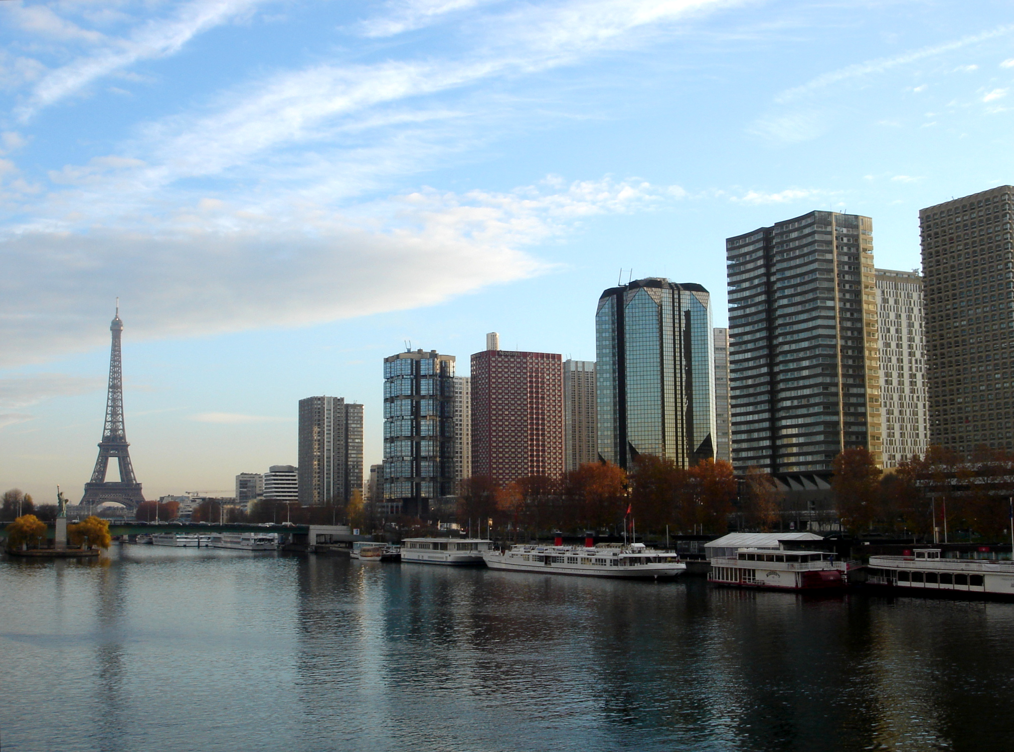 View of the Port de Javel (Paris, 15th Arrondissement) from the Mirabeau bridge